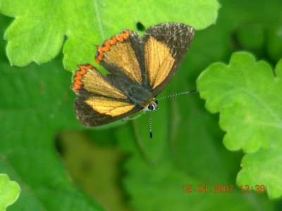 Golden Sapphire Heliophorus brahma Family Lycaenidae, Lepidoptera UP Image taken in Algarah, near Kalimpong, Kalimpong district, North Bengal, India on 15 April 2007. Self-work. AshLin 04:14, 15 May 2007 (UTC)